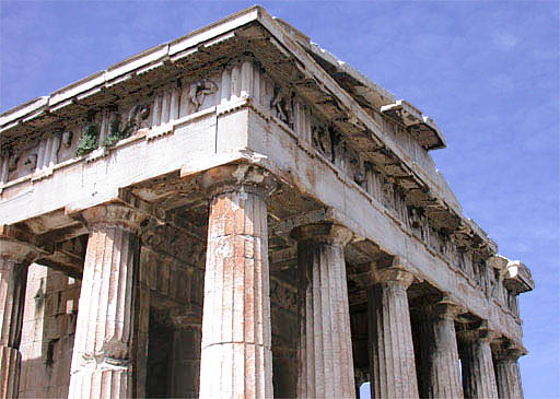 Temple of Hephaistion, ancient Agora of Athens, Athens, Greece